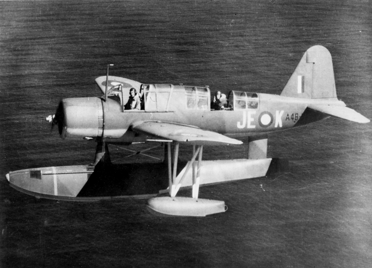 A Royal Australian Air Force Vought OS2U Kingfisher seaplane in flight. No. 107 Squadron RAAF operated 18 OS2Us from RAAF Base Rathmines in New South Wales and St. Georges Basin from 1943 to 1945.